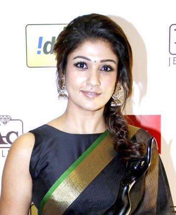 Nayanthara at Filmfare Awards South held on 12 July 2014